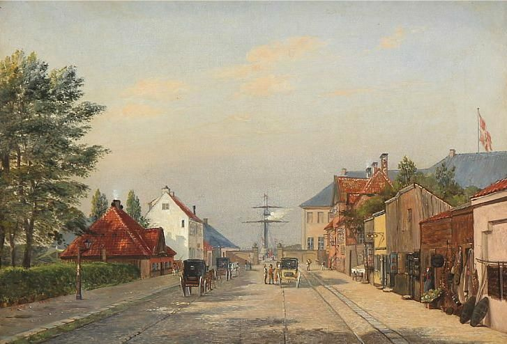 Københavns Toldbod (C O Zeuthen )